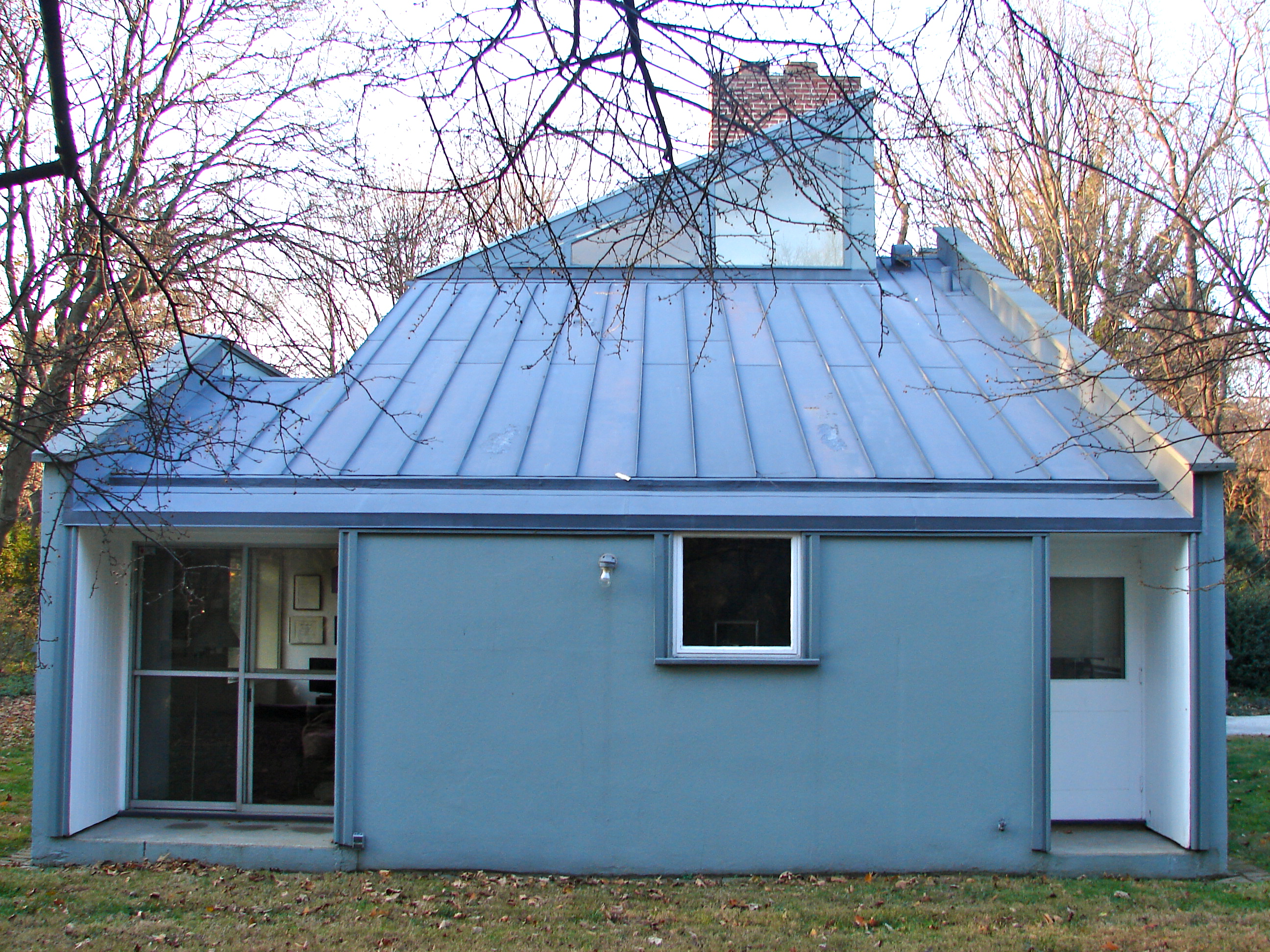 Vanna Venturi House from the south (side). V V House is viewed as the first Post-modern building, being designed in the early 1960s by architect Robert Venturi for his mother. In the Chestnut Hill neighborhood of NW Philadelphia. The entire neighborhood is a National Register of Historic Places historic district.